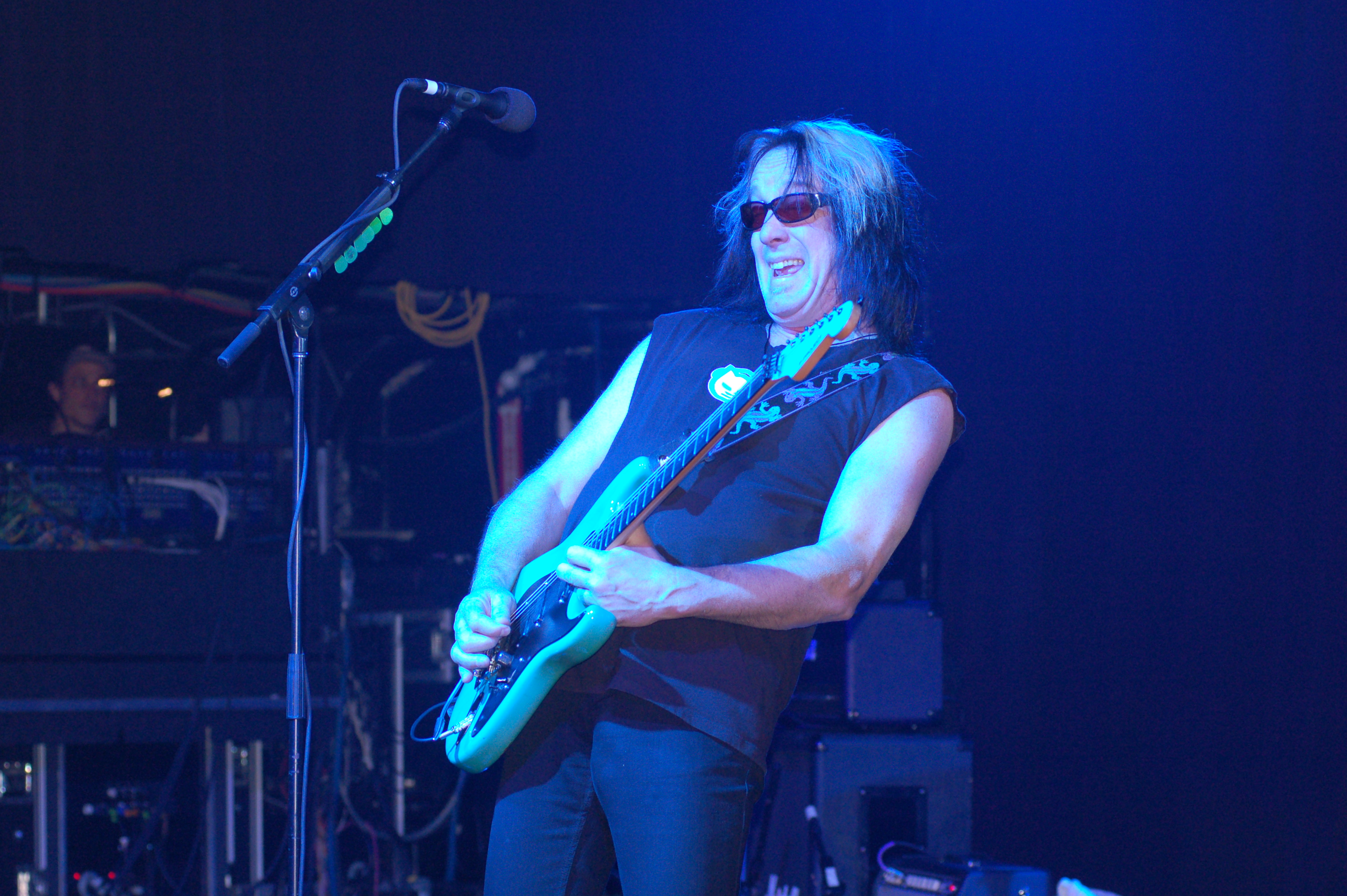 Todd Rundgren at Revolution Live March 25th 2009 - Fort Lauderdale, FL